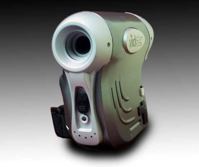 This is the Mattel Vidster